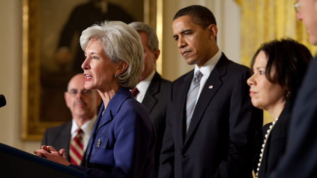 Kathleen Sebelius speaking after her official nomination as Secretary of Health and Human Services. President Barack Obama is standing behind Sebelius